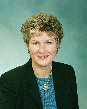 Karen Hughes, from and a U.S. State Department page on the U.S.-Afghan Women's Council. Argued public domain.